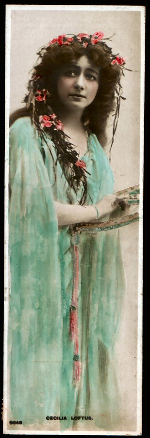 Cecilia Loftus Rotary Photo Series 9048 (9046?) postmarked Doncaster 24 October 1903 Maude Fealy Postcard gallery